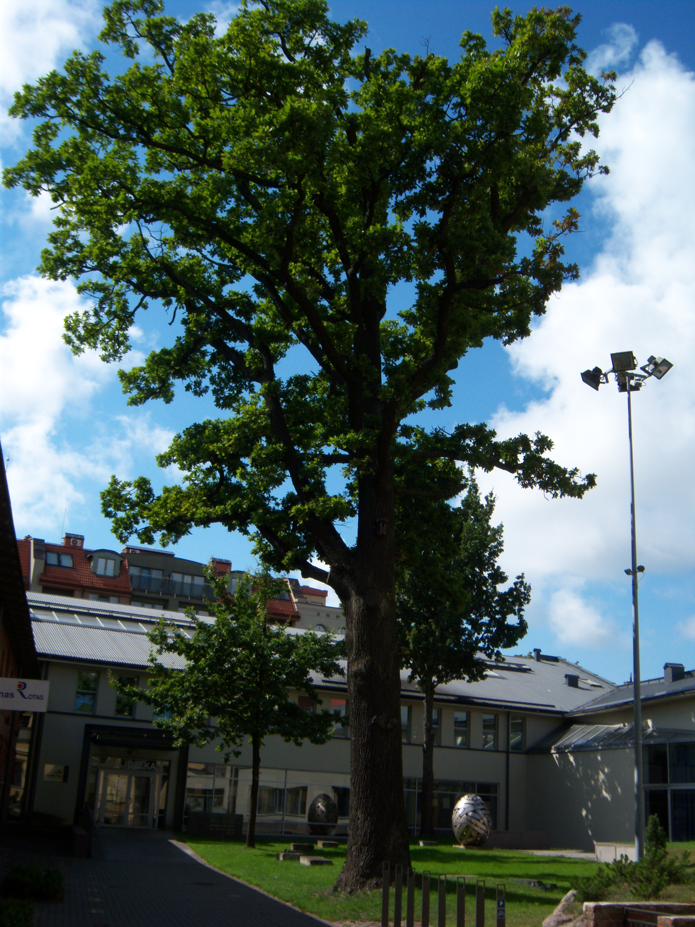 Oak tree by the library, Manto Street 25, Klaipėda, Lithuania